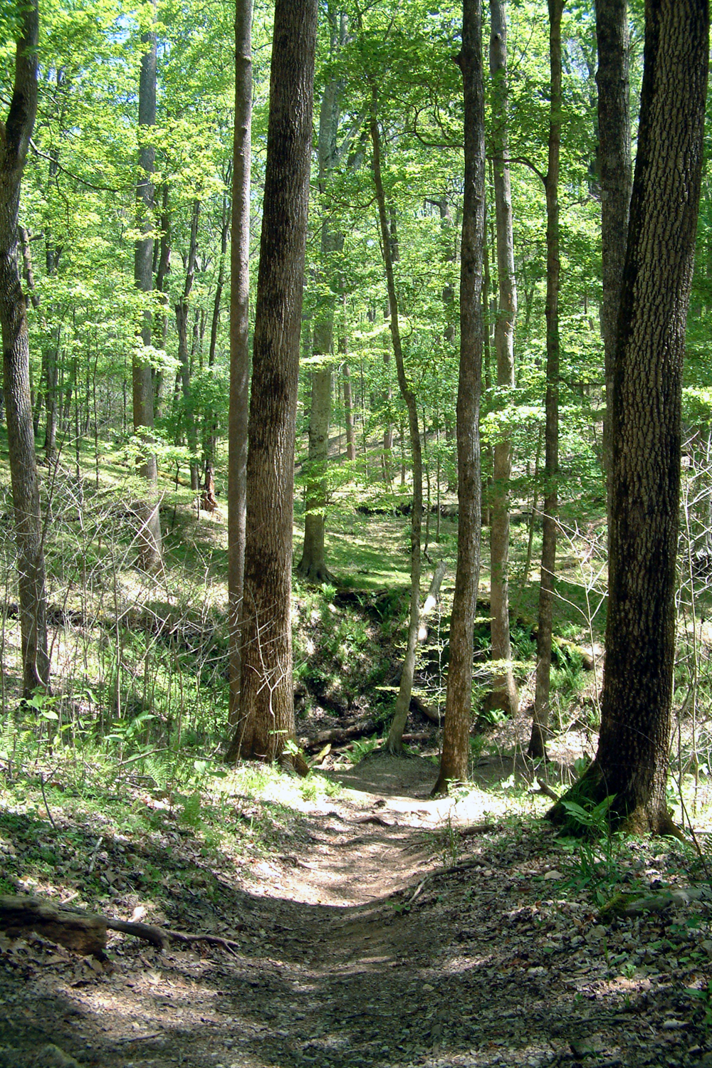 A trail winds through Mammoth Cave National Park.